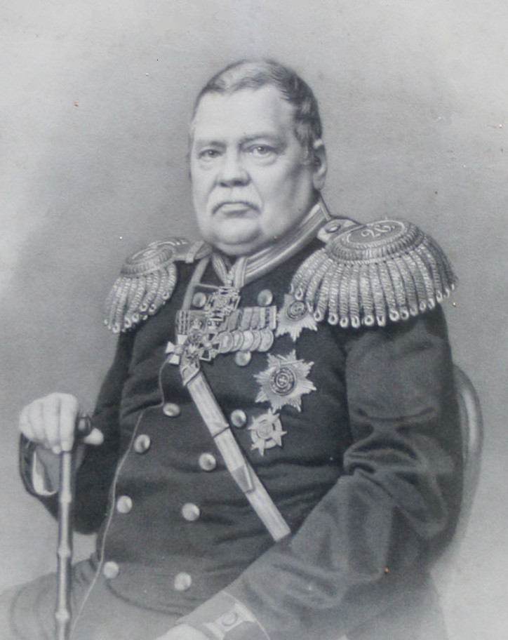 Litography «Count Mikhail Nikolaevich Muravyov». Saint Petersrburg, 1865